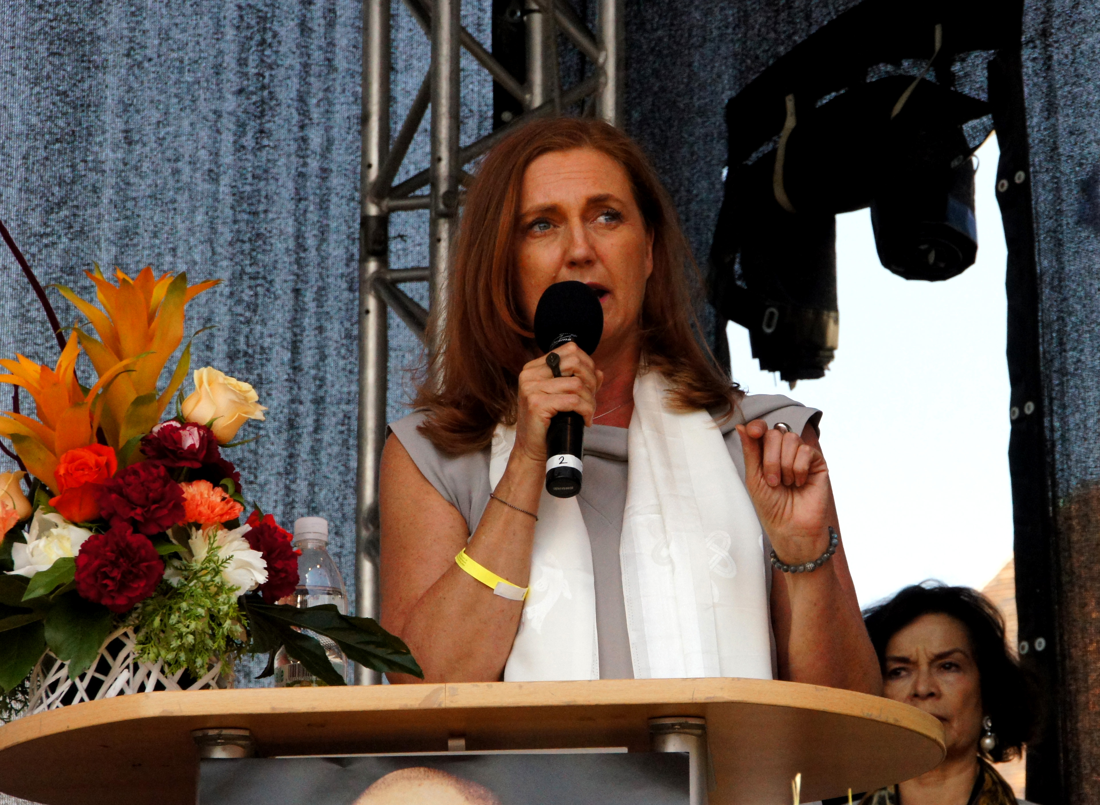 Francesca von Habsburg promoting some 'Tibet' event. (In right-bottom-corner: Bianca Jagger)